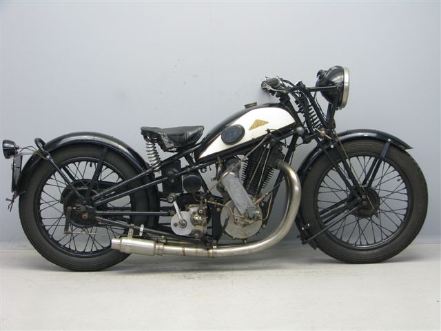 Cotton M25 500 cc motorcycle with a Blackburne engine from 1928